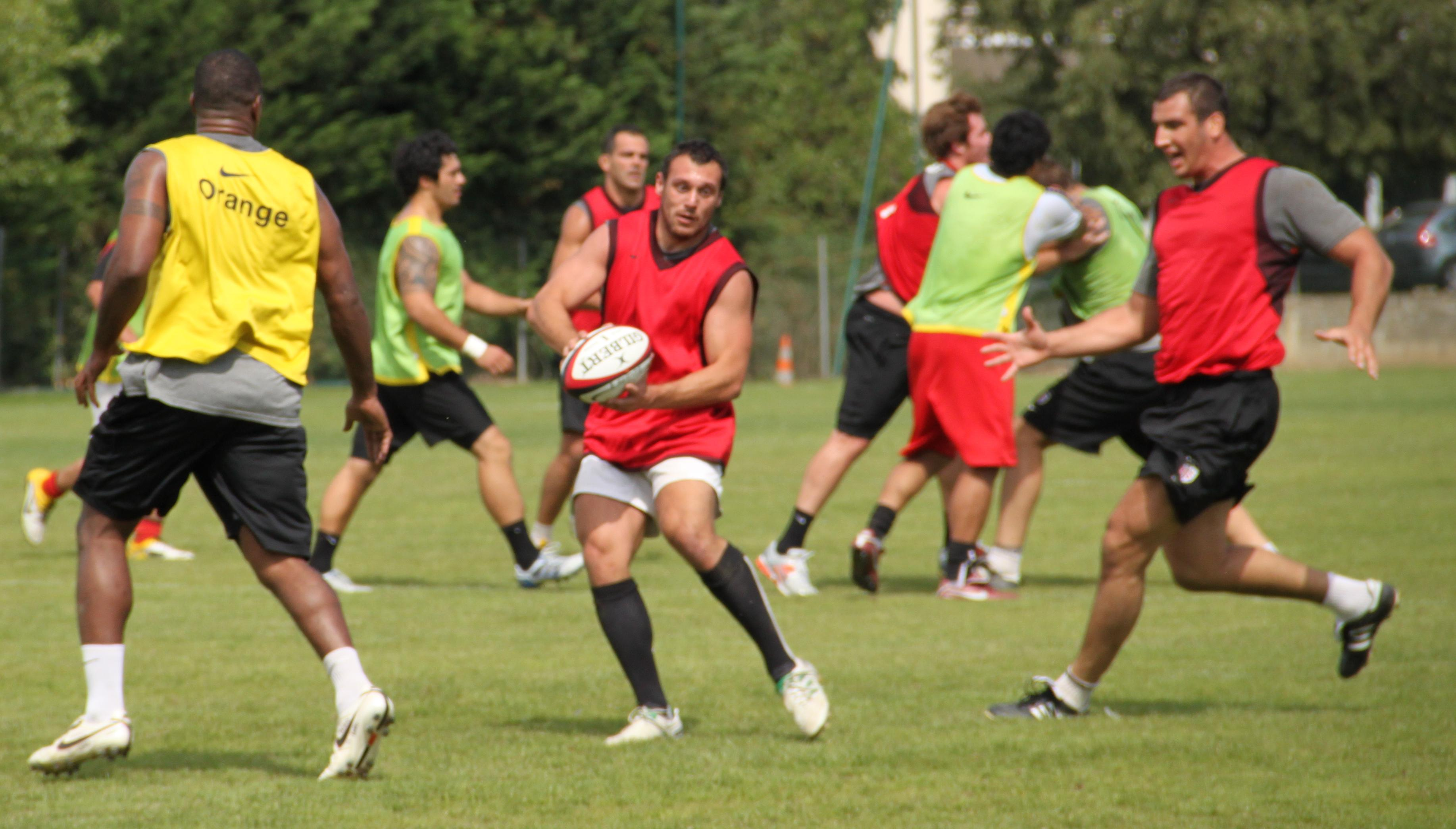 Stade toulousain training